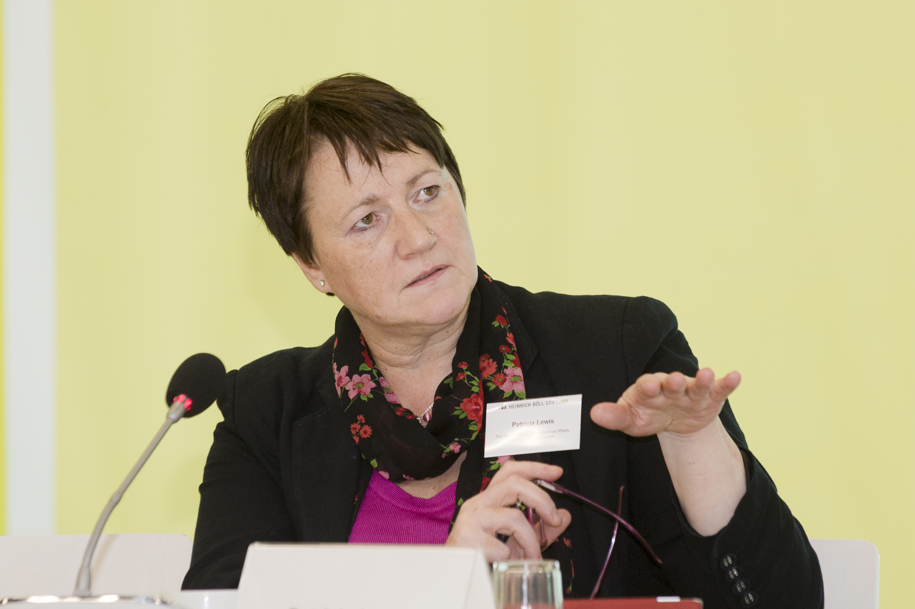 Patricia Lewis, The Royal Institute of International Affairs, Chatham House, London, Bild: Isis Martins